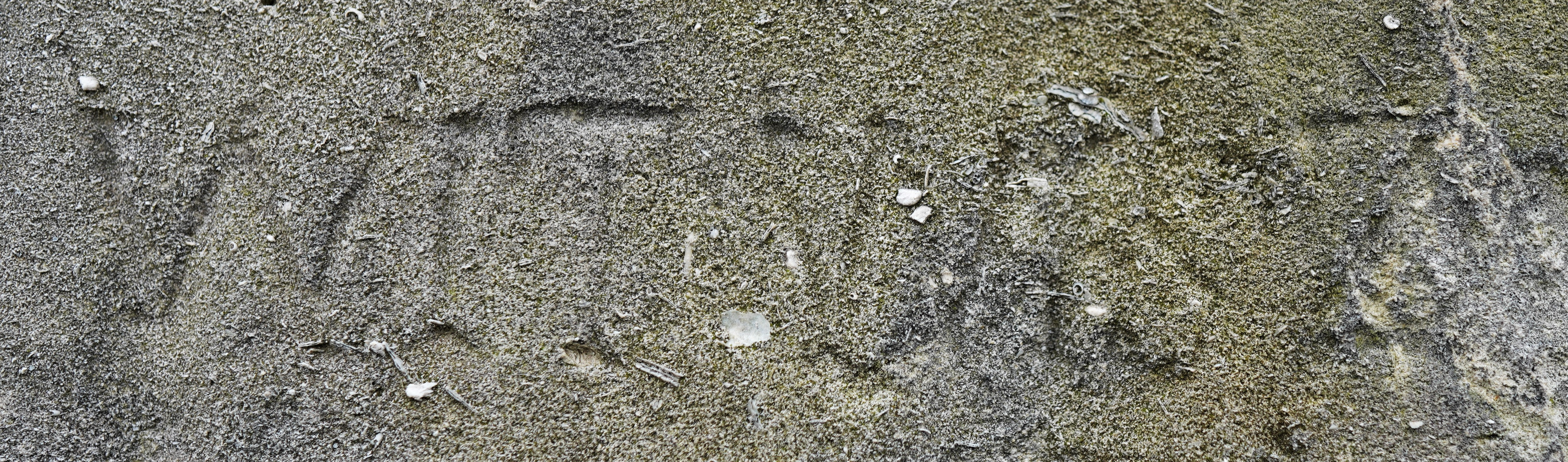 Signature Wit Wisz (Walenty Wisz)